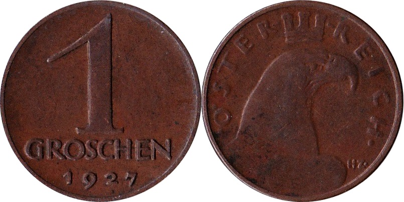 Coin from Austria - 1 groschen, 1927